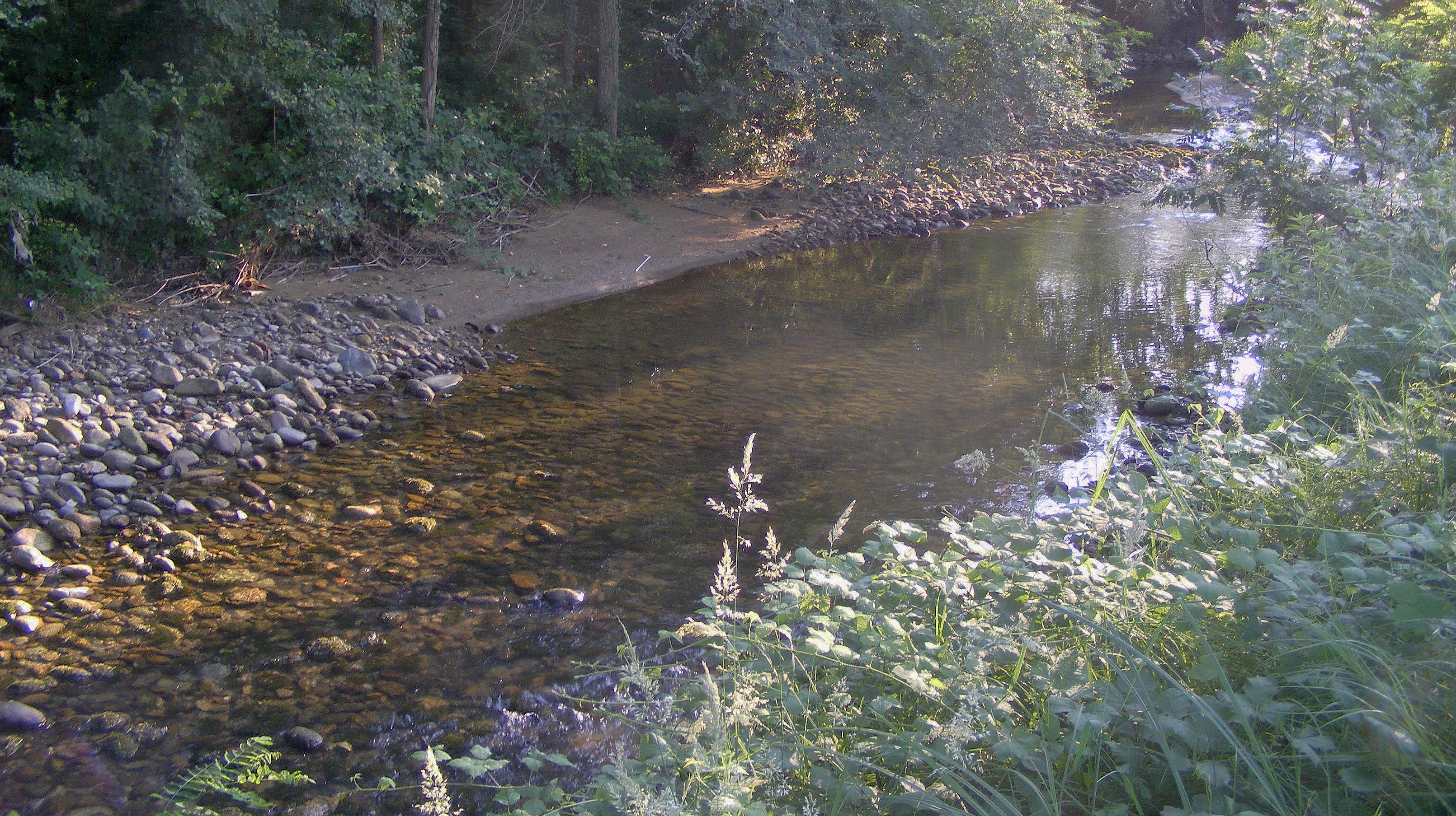 Malesina creek near San Giorgio Canavese (TO, Italy)